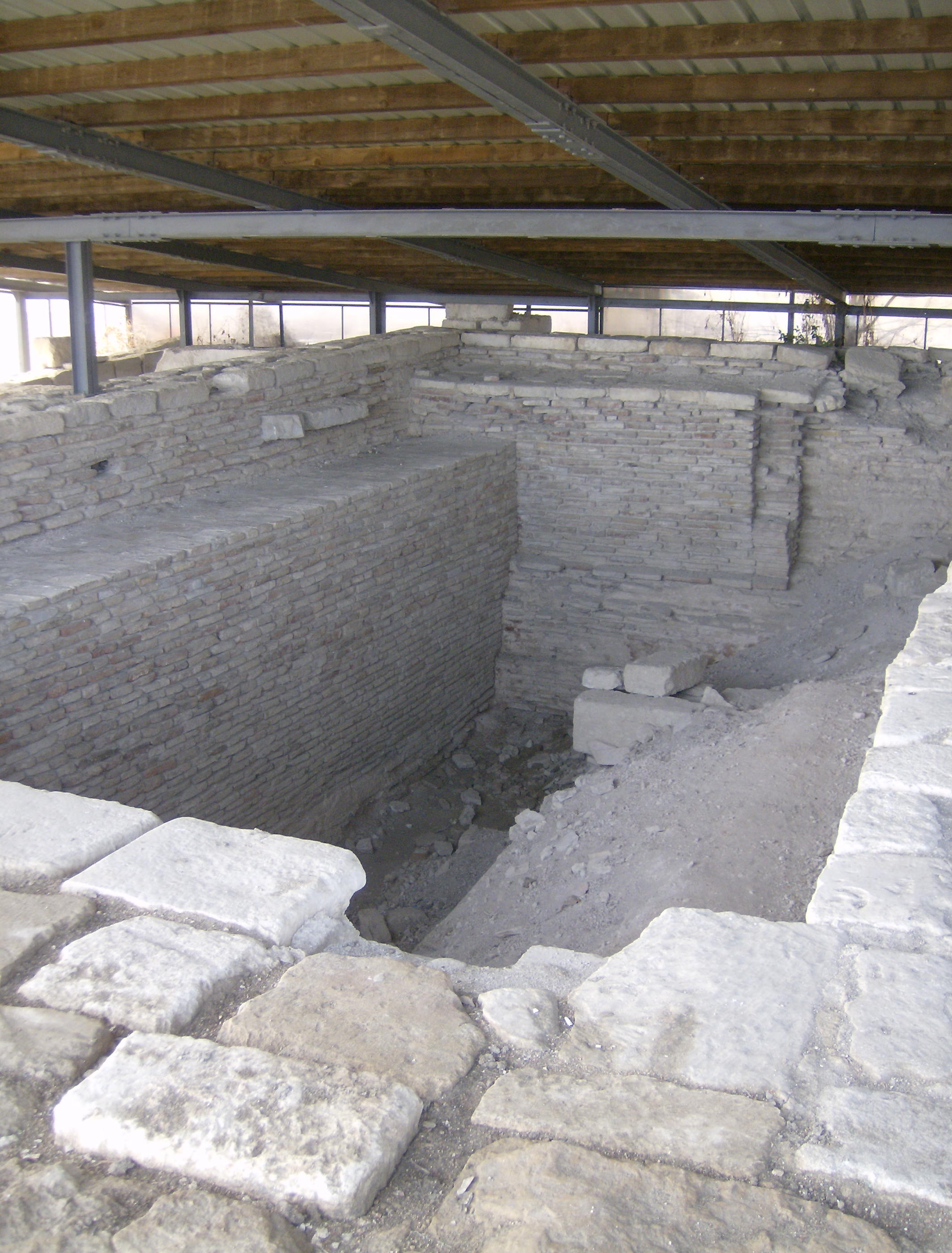 Pliska Fortress